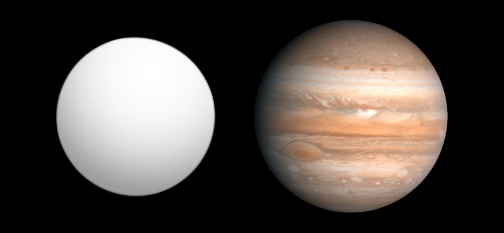 Comparison of best-fit size of the exoplanet Kepler-9 c with the Solar System planet Jupiter, as reported in the Extrasolar Planets Encyclopaedia[1] as of 2010-10-03. ↑ Extrasolar Planets Encyclopaedia (2010-09-30). Retrieved on 2010-10-03.